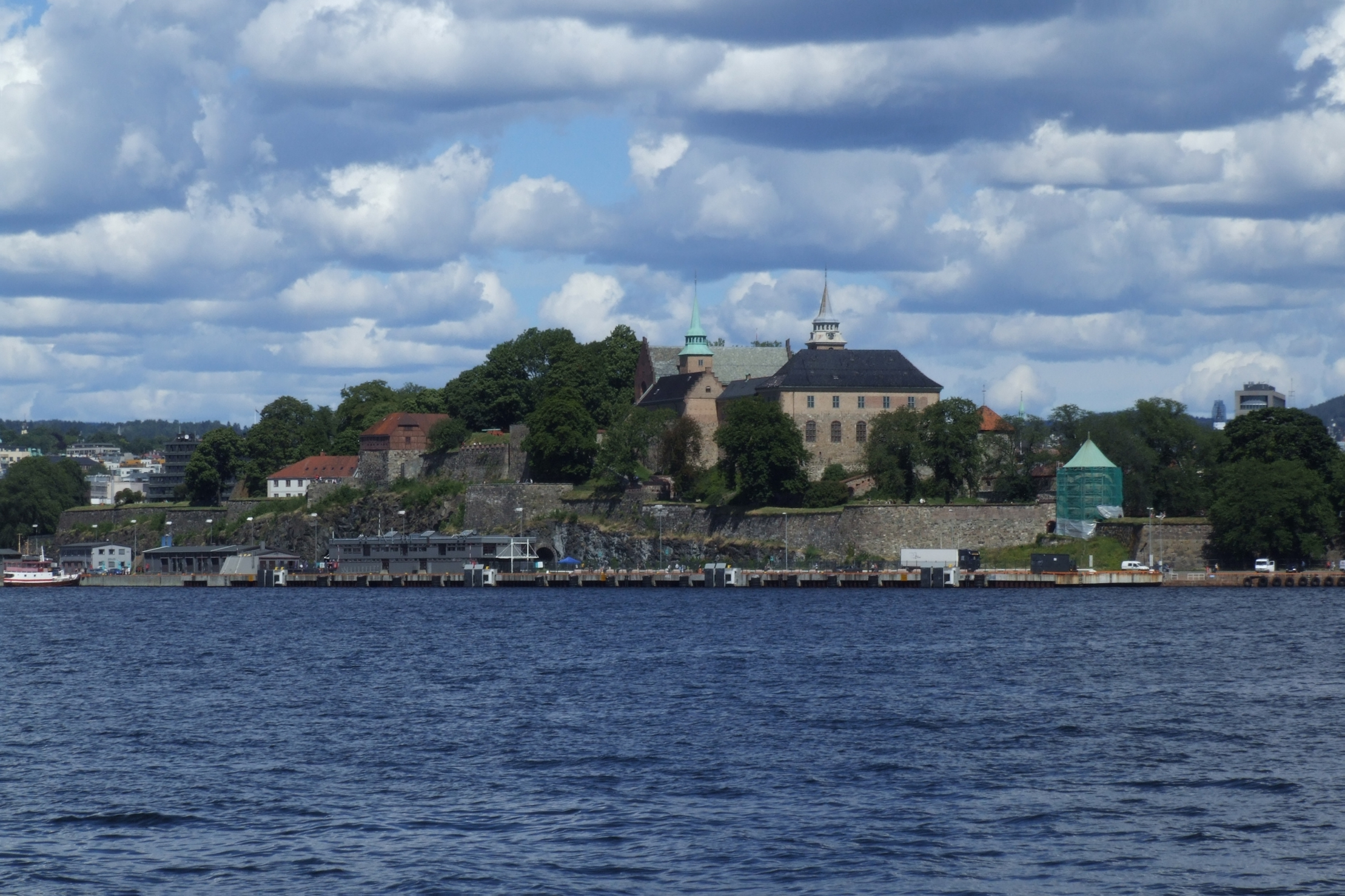 Akershus Castle in Oslo, Norway.